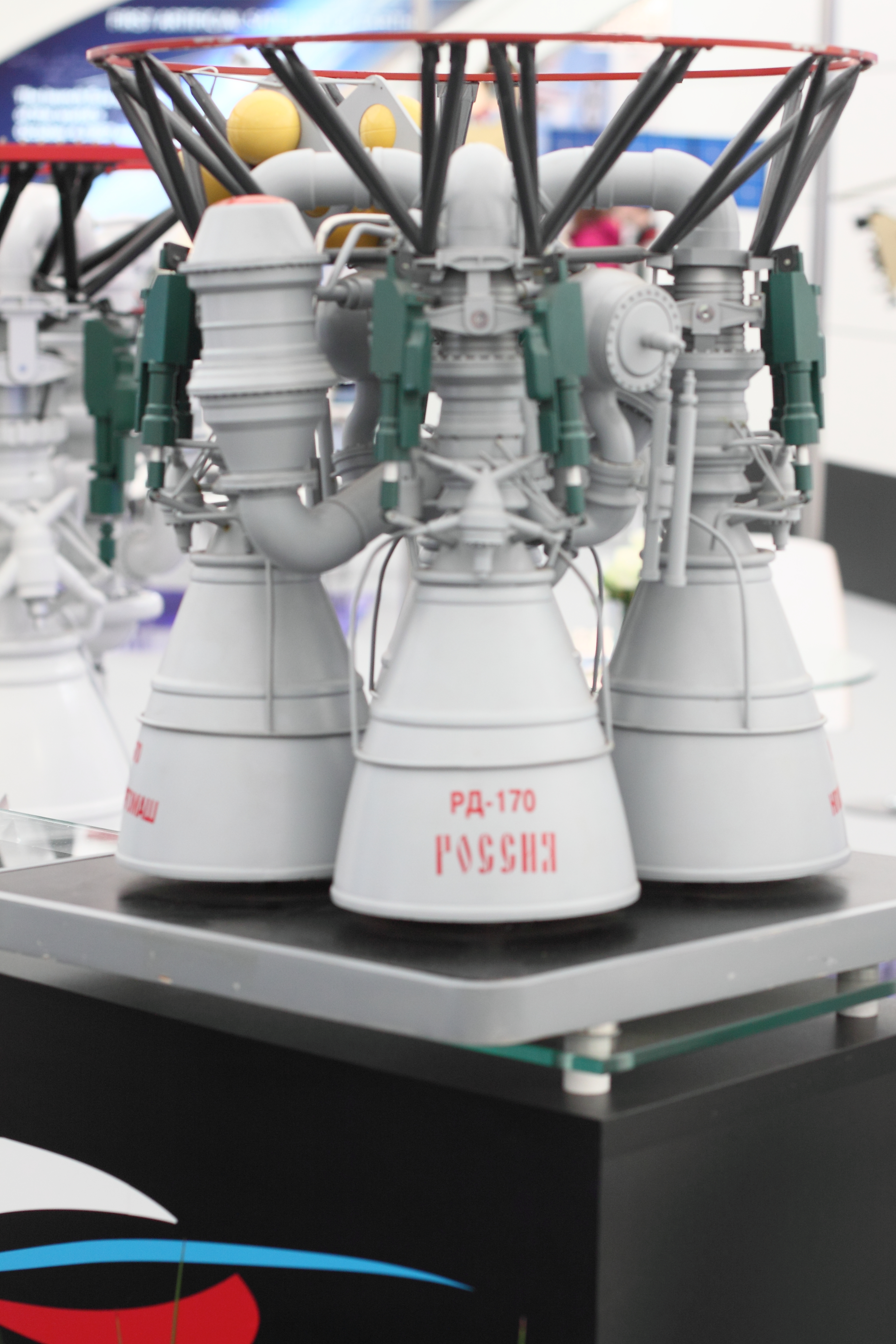 ILA Berlin Air Show 2012, russian rocket engine RD-170 Rossija; РД-170; РОССИЯ